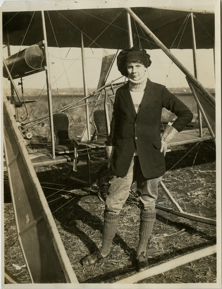 N-YHS Prints and Photographs, PR 68. Midland Beach, Staten Island on December 2, 1916.